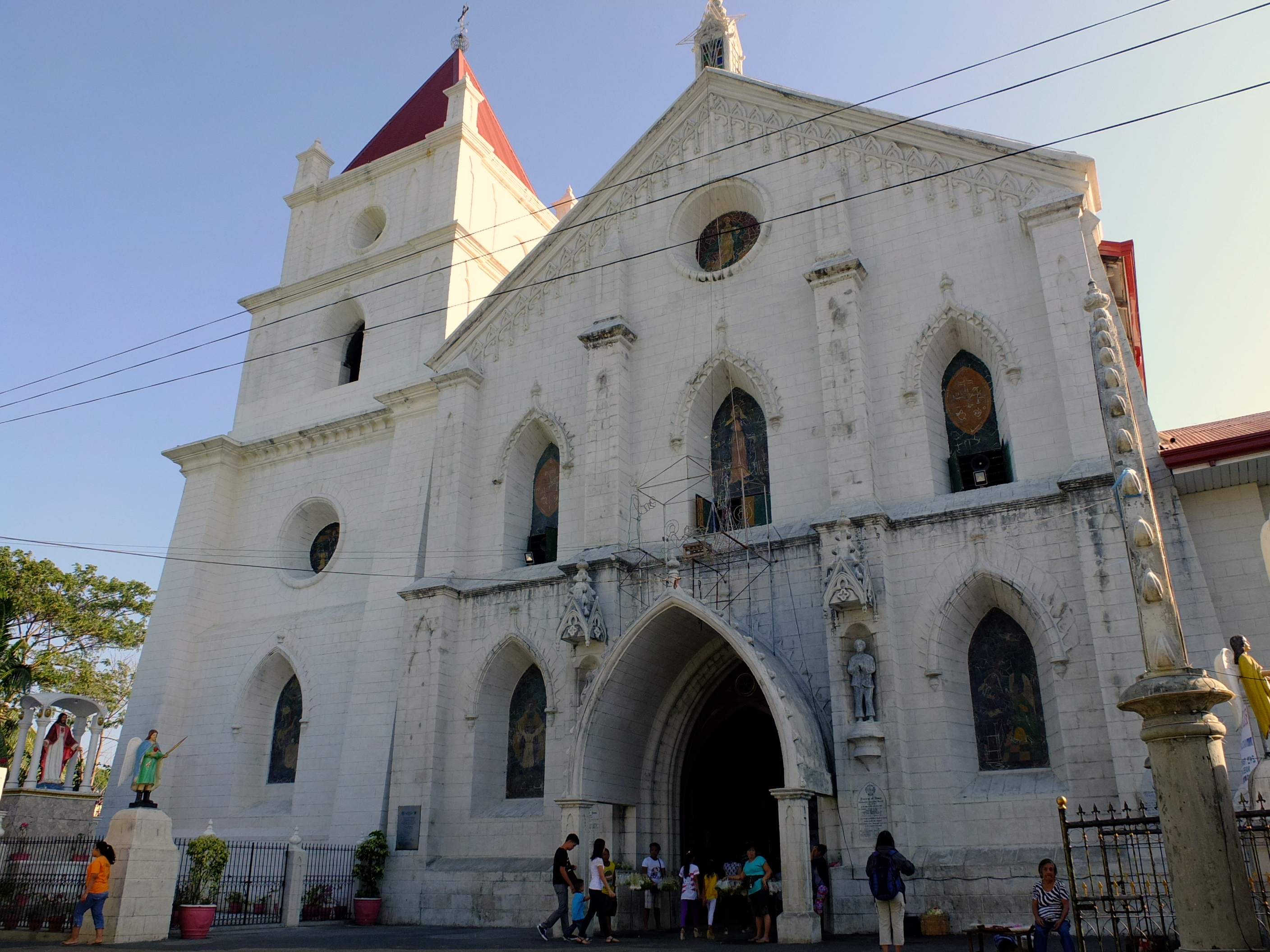 The gothic inspired church of Naic known at the Shrine of the Immaculate Conception